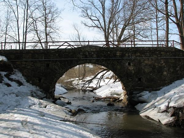 The bridge of Love in Krustpils, Latvia.